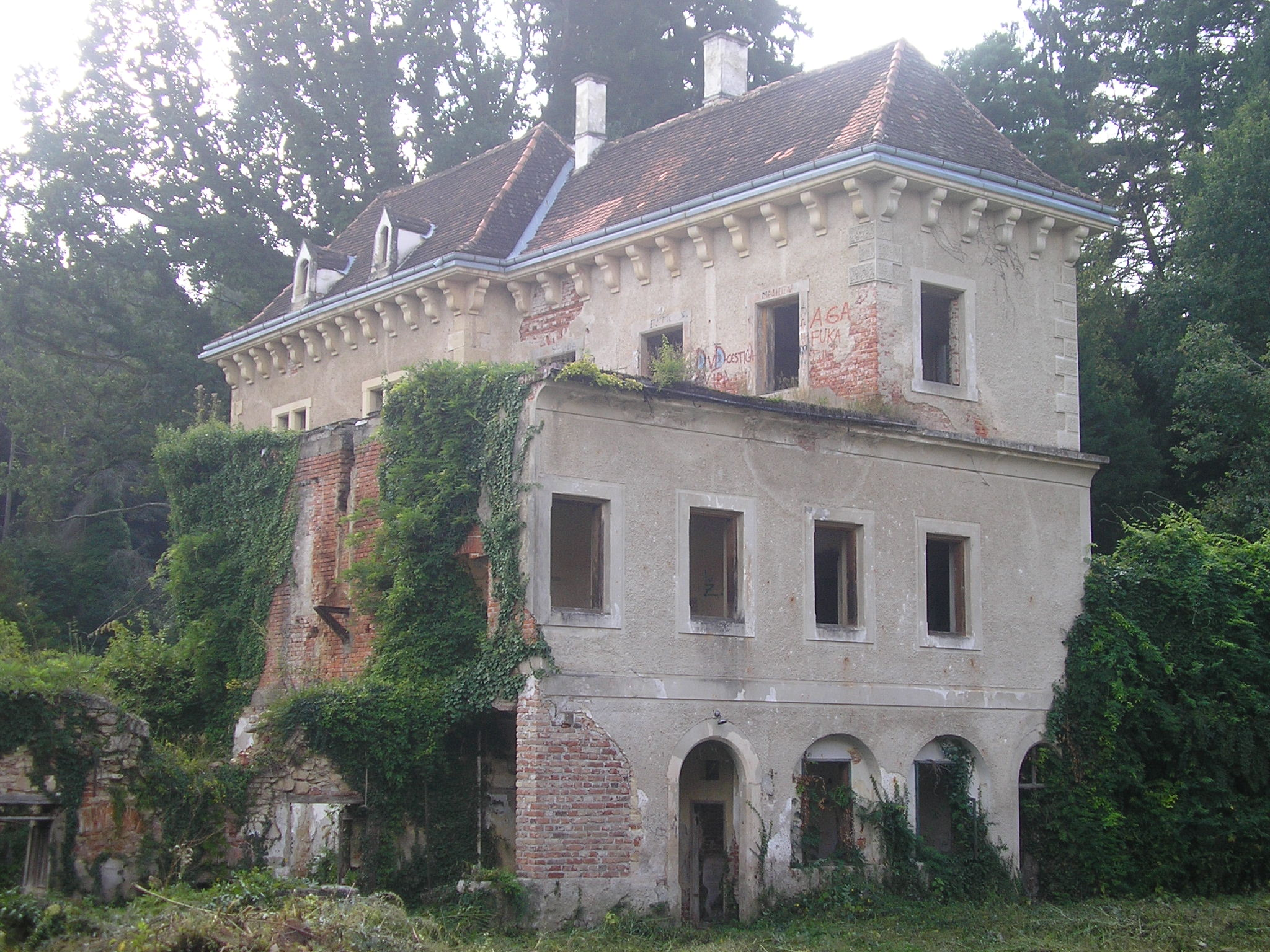 Opeka Manor, Vinica municipality, Varaždin county, Croatia